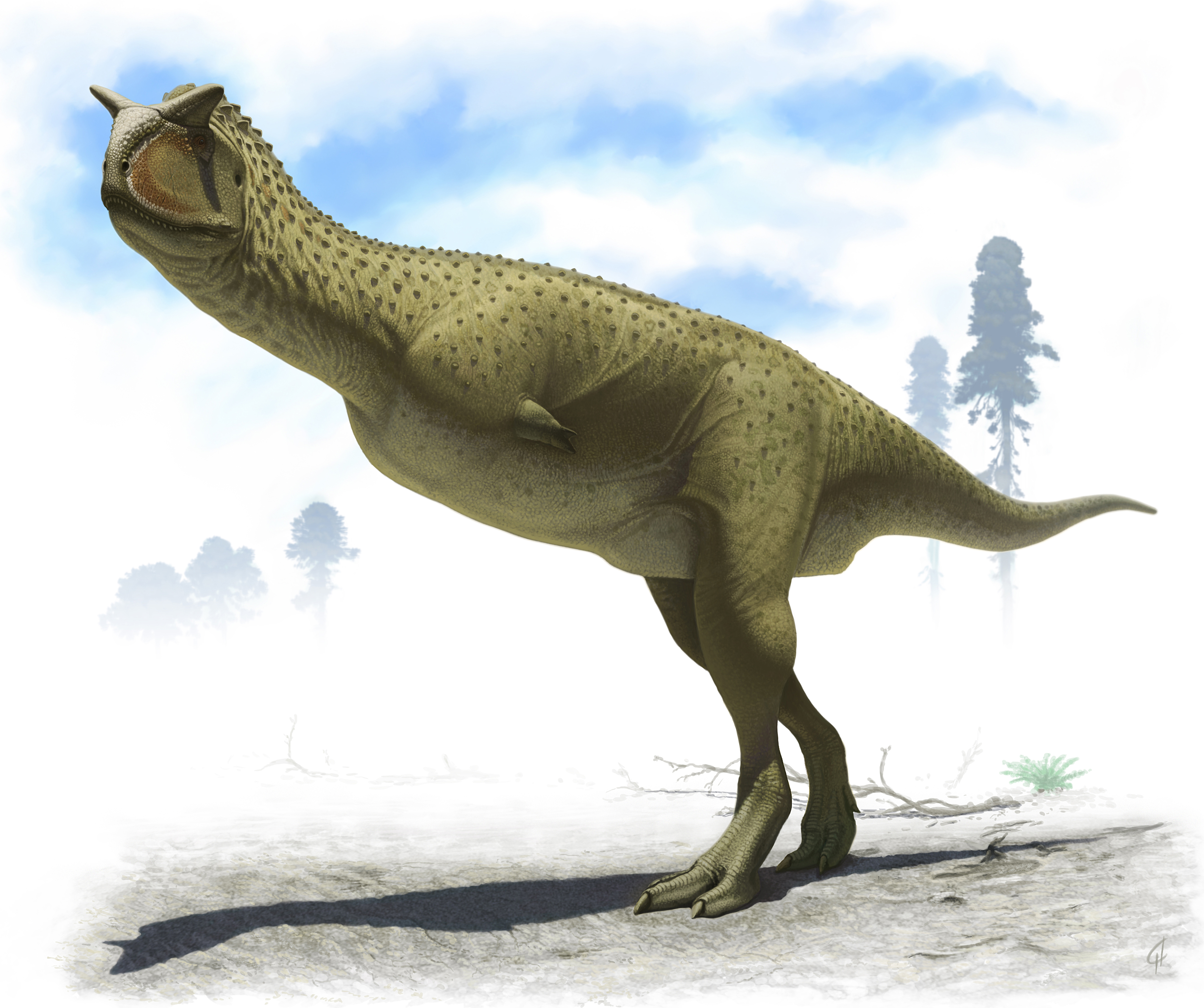 Artistic reconstruction.